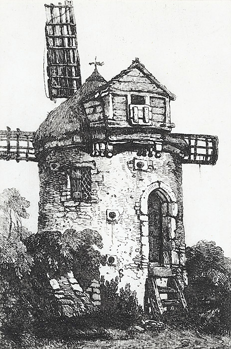 A view of a windmill with a small ladder placed by the doorway.